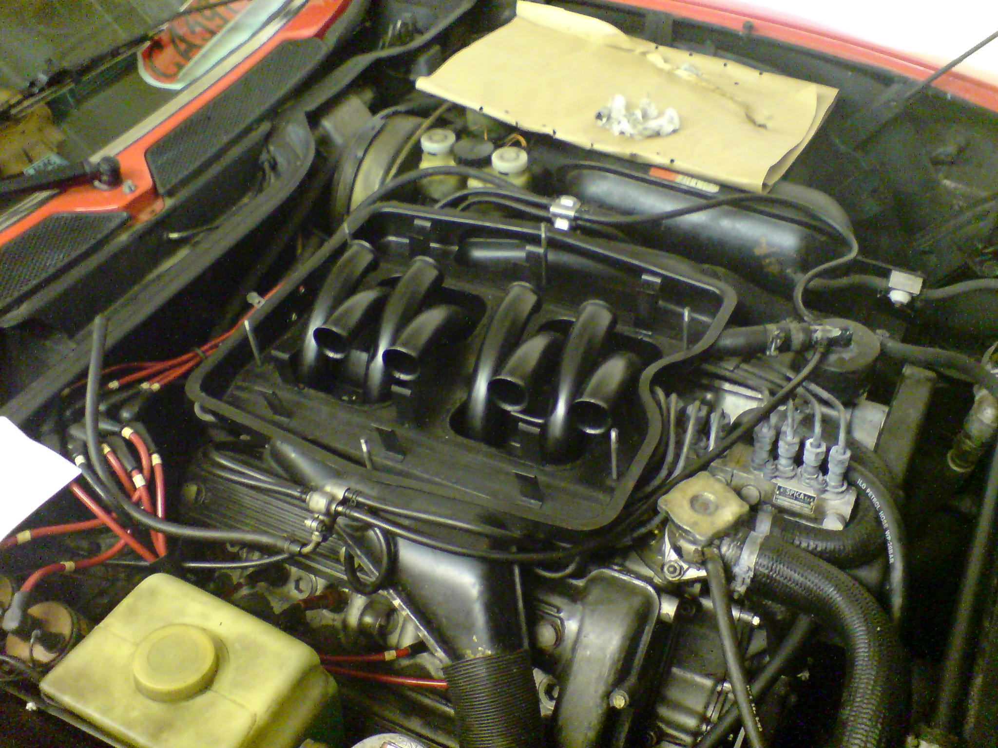 The Alfa Romeo Montreal engine bay with the airbox cover removed